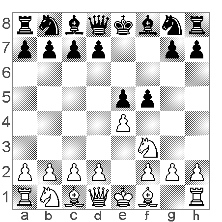 chess diagram Latvian gambit Source: CBlight + my processing